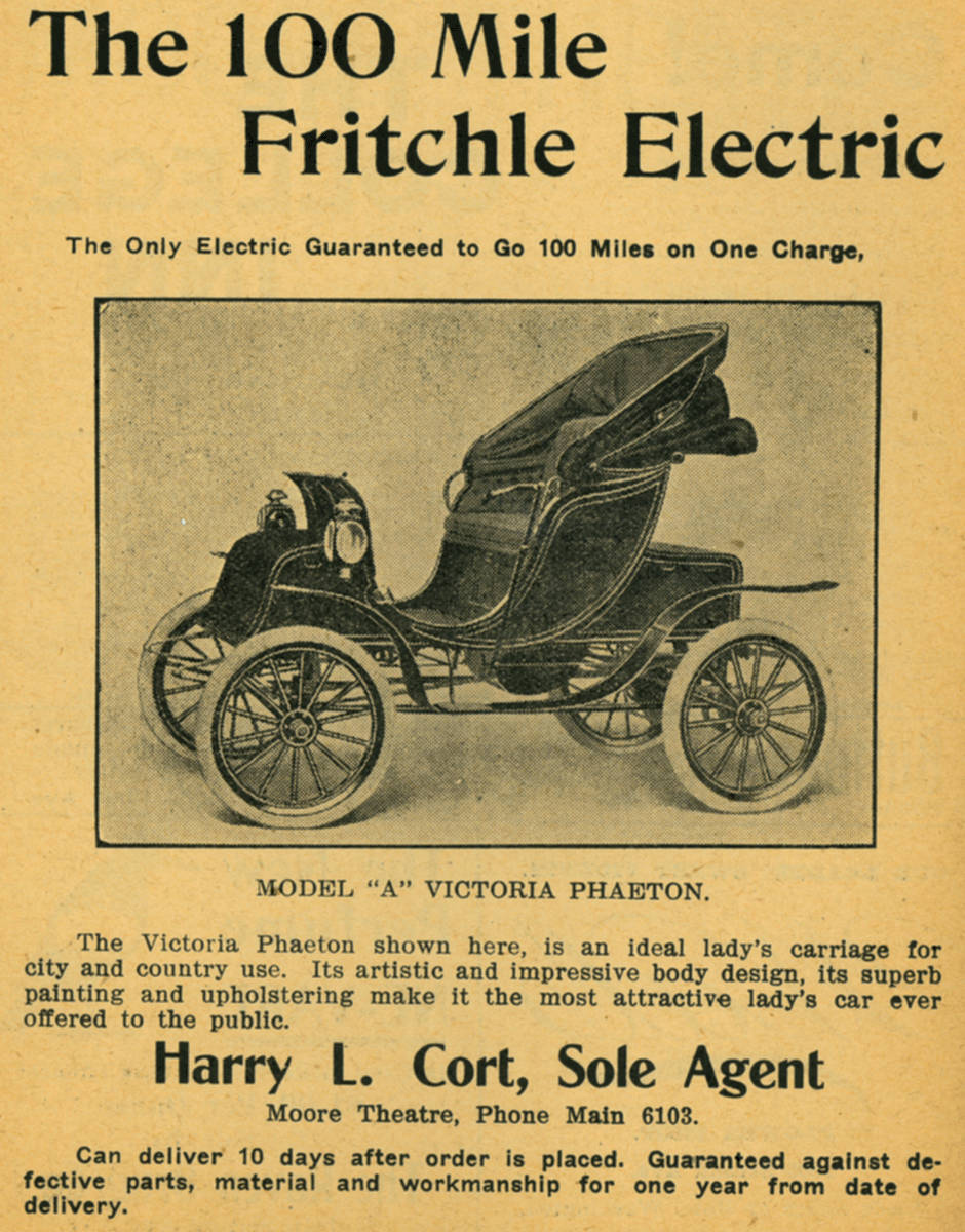 Pictured is the Model A Victoria Phaeton. After receiving a patent for a lead-acid battery in 1903, Oliver Parker Fritchle established the Fritchle Electric Storage Battery Company in Denver, Colorado. The company produced its first electric car in 1905. In 1908, Fritchle embarked on a cross-country journey to promote the car's speed and its ability to travel 100 miles or more in one day. Geographic coverage: United States--Washington (State)--Seattle Subjects (LCTGM): Electric automobiles; Automobile dealerships--Washington (State)--Seattle